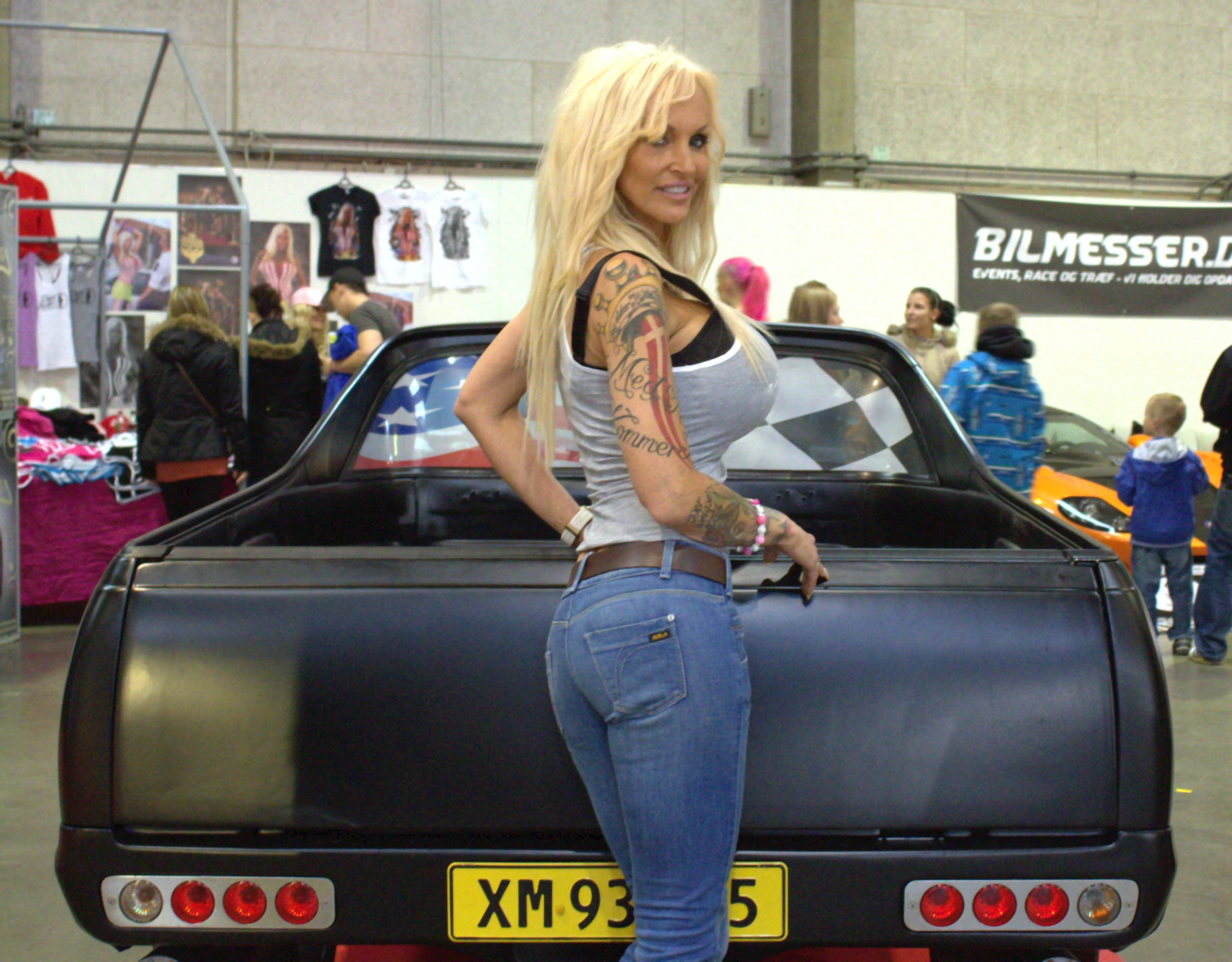 Lenina "Linse" Kessler (born March 31, 1966 in Copenhagen) is a Danish television personality, fetish model, actress and businesswoman. Kessler is known to have "Scandinavia's largest breasts" and for being the big sister for the professional boxer Mikkel Kessler. Posing at Fast & Furious Carshow 2012 in Fredericia, Denmark.